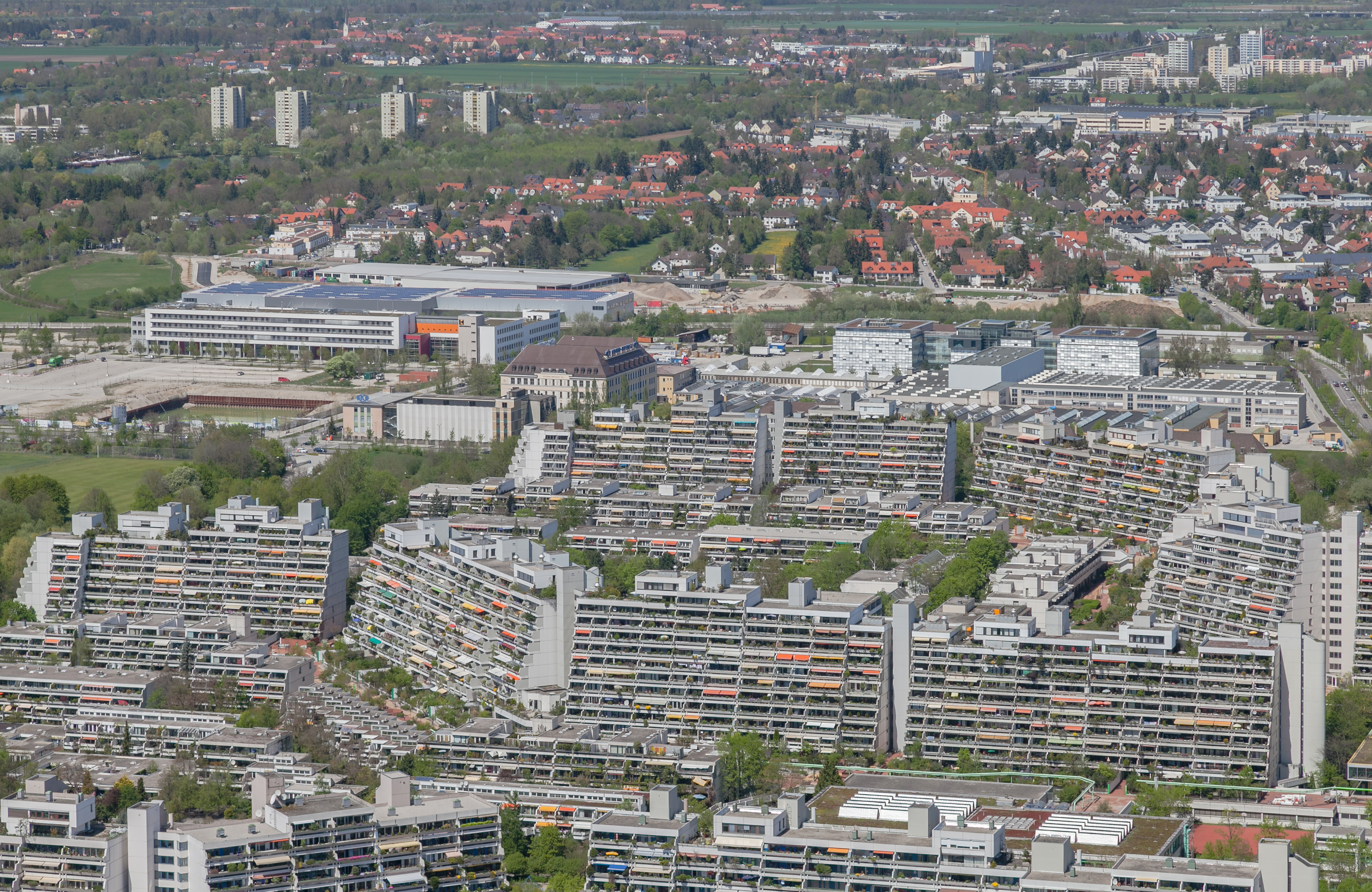 Olympic Village, Munich, Germany